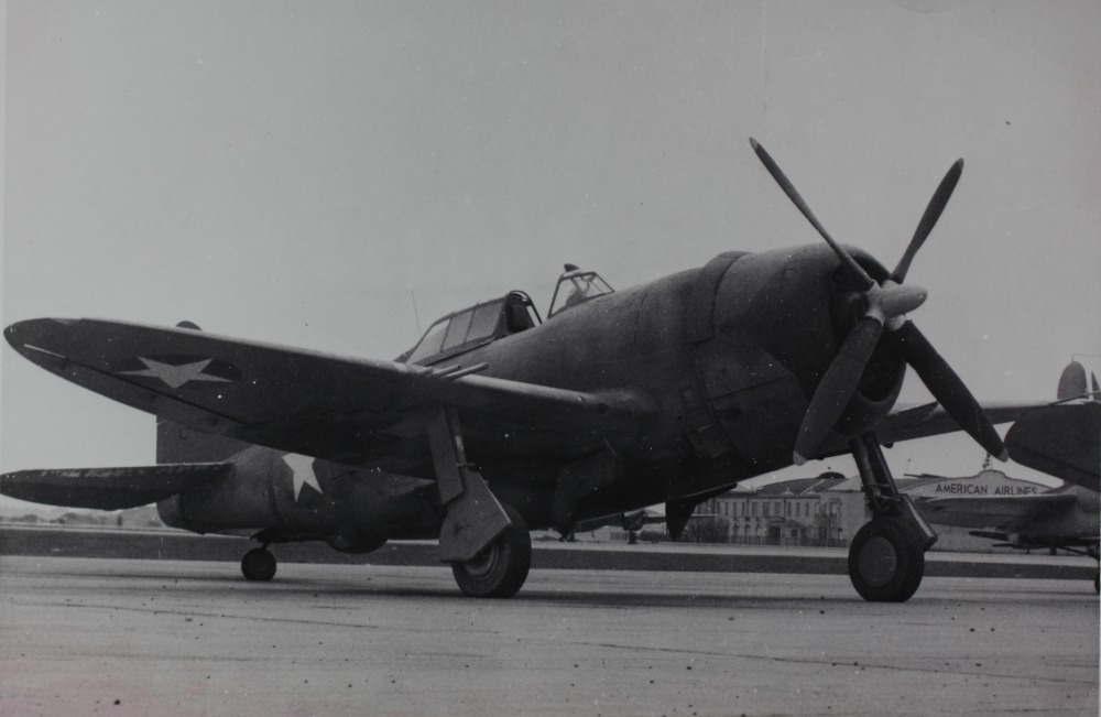 PictionID:41566805 - Title:Republic P-47C Thunderbolt On a tarmac with an American Airlines' hanger in the lower right in the photo - Catalog:15_002907 - Filename:15_002907.TIF - Image from the Charles Daniels Photo Collection album "Seversky, Republic and P-47"----PLEASE TAG this image with any information you know about it, so that we can permanently store this data with the original image file in our Digital Asset Management System.----SOURCE INSTITUTION: San Diego Air and Space Museum Archive